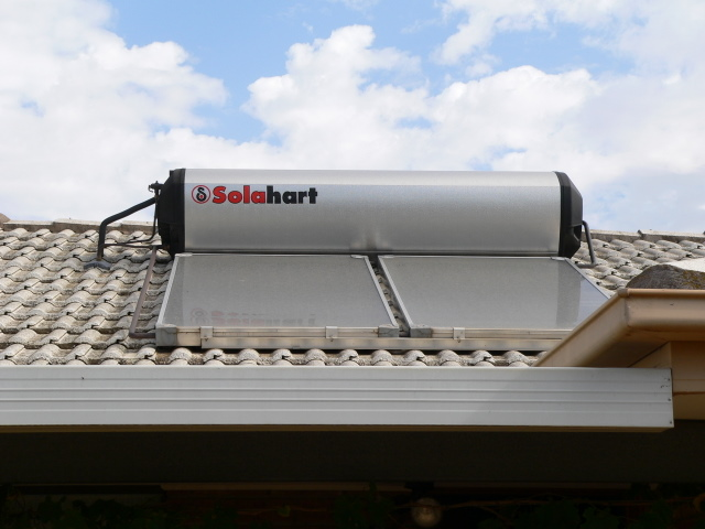 A Solarhart brand solar hot water panel and integrated tank on a house roof in Australia